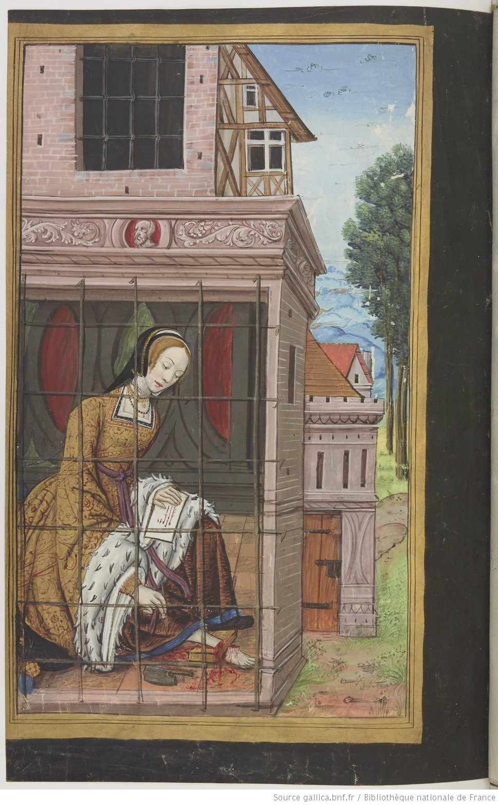 Hypermnestra writing to Lynceus.